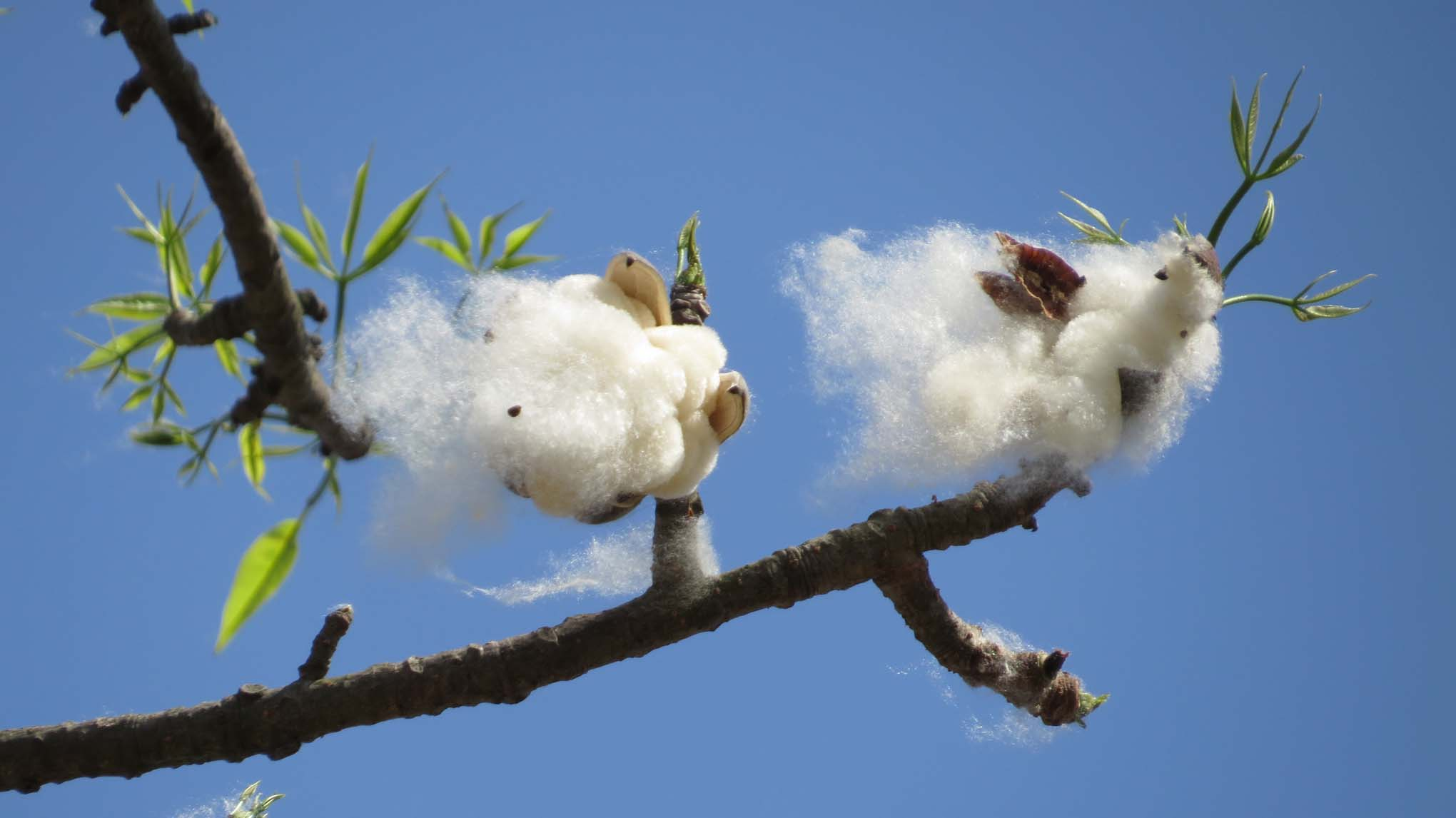 Gossypium arboreum